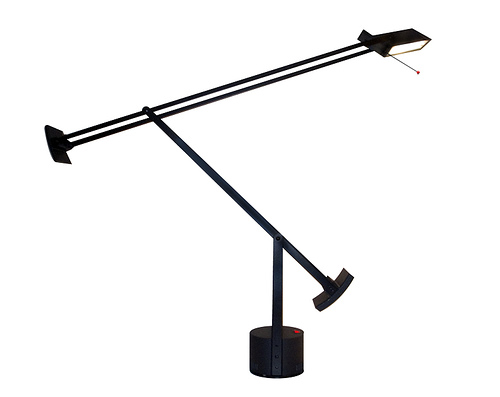 Tizio lamp by Richard Sapper (1972)